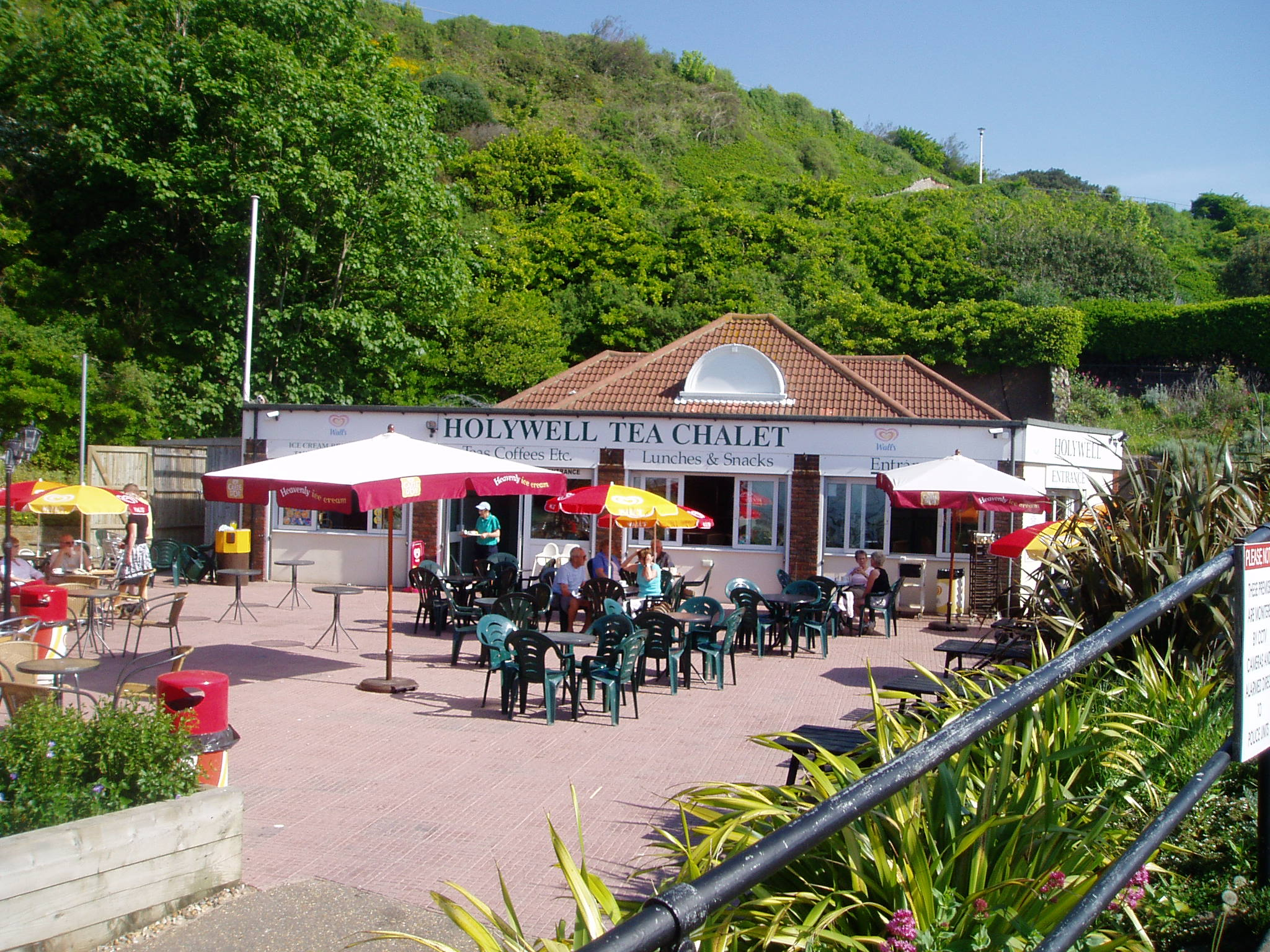 Eastbourne - Holywell Tea Chalet